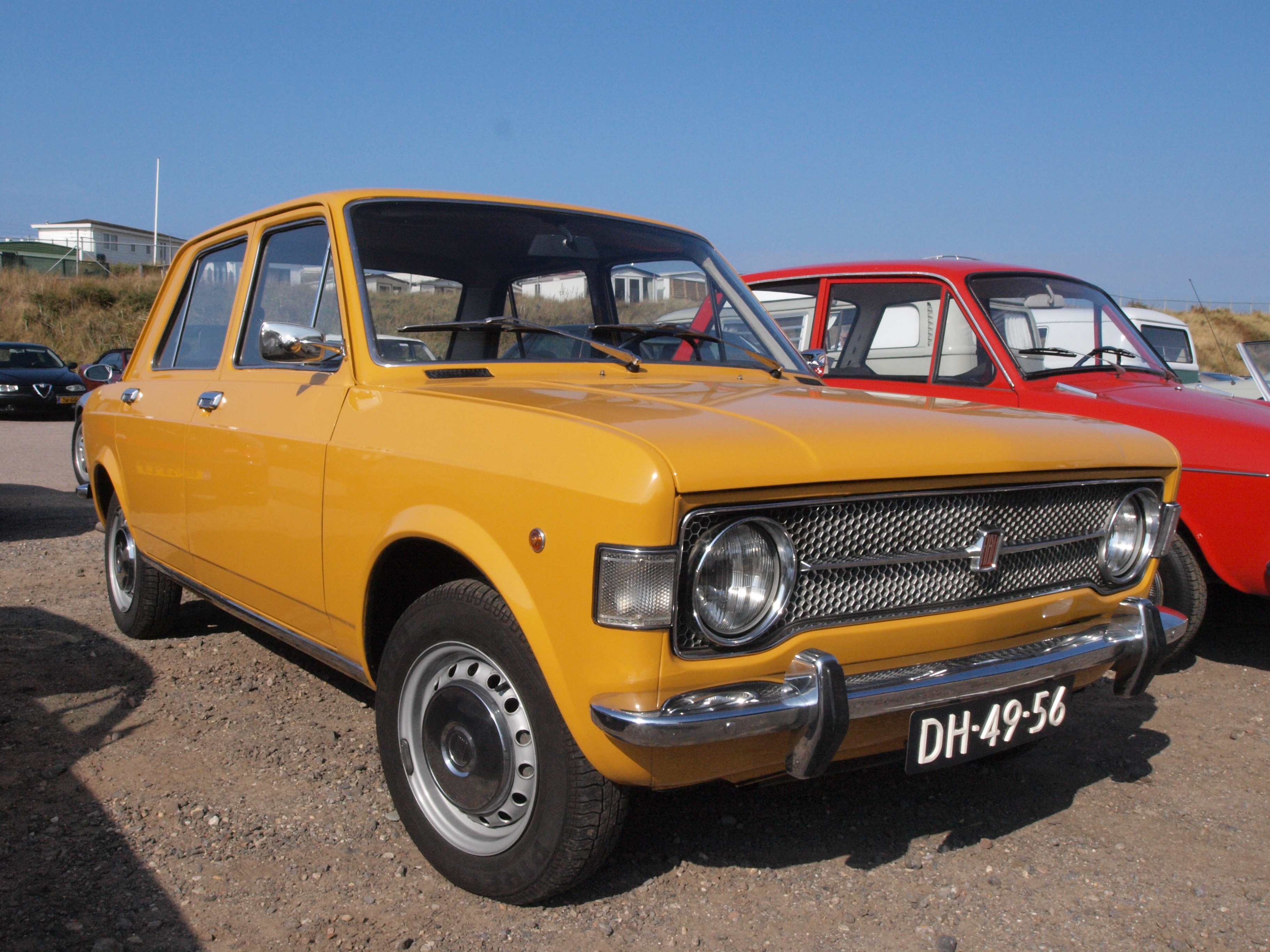 Photographed at the Nationaal Oldtimer Festival Zandvoort 2009, The Netherlands. OLYMPUS DIGITAL CAMERA